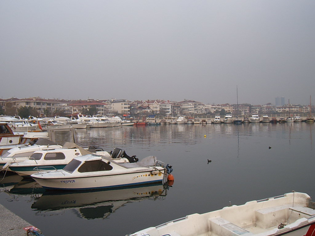 Yeşilköy Marina